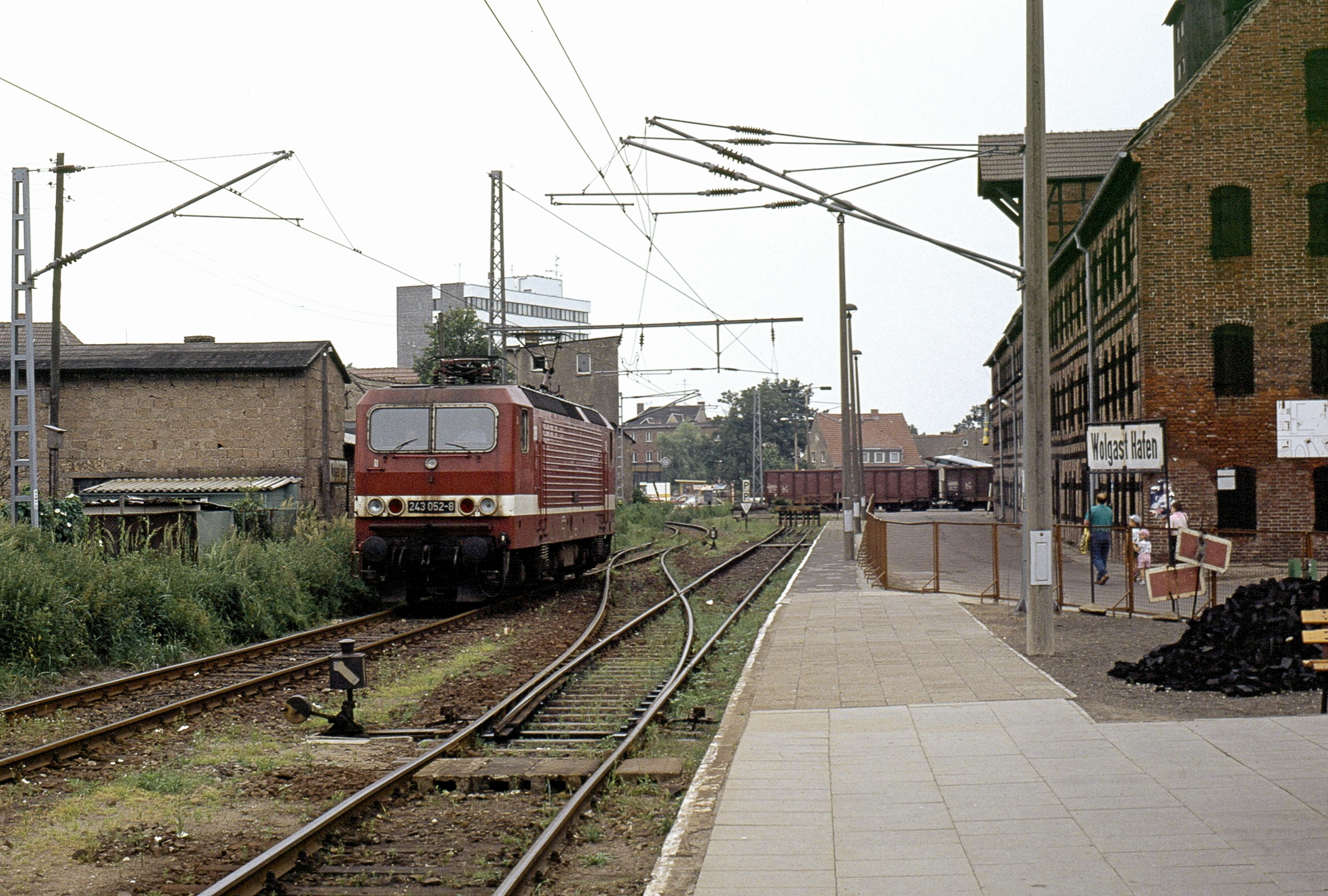 Wolgast Hafen railway station